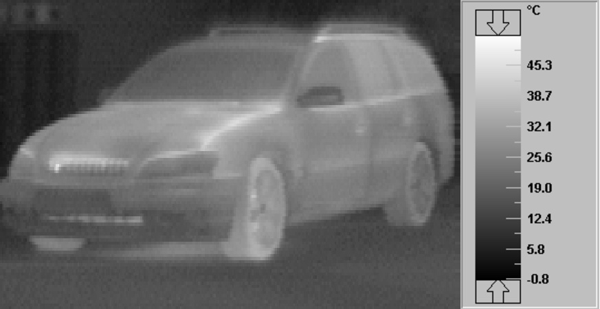 Infrared photography of an Opel Omega station wagon. Temperature values are not exact, since emissivity equal unity was assumed for all surfaces.